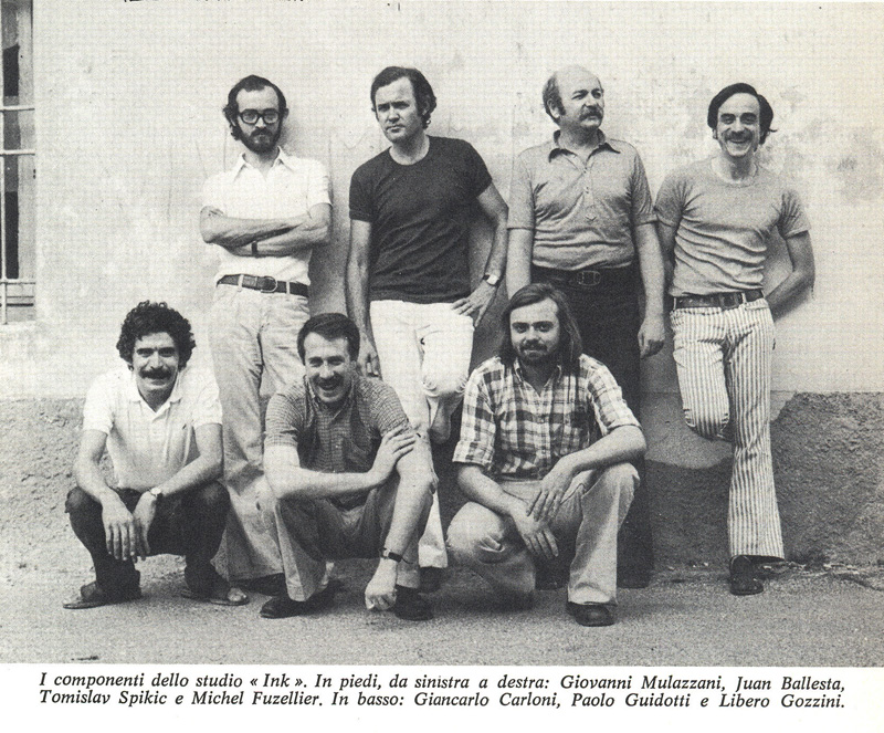 Members of Studio Ink. On top : Giovanni Mulazzani, Juan Ballesta, Tomislav Spikic, Michel Fuzellier. Above : Giancarlo Carloni, Paolo Guidotti e Libero Gozzini.